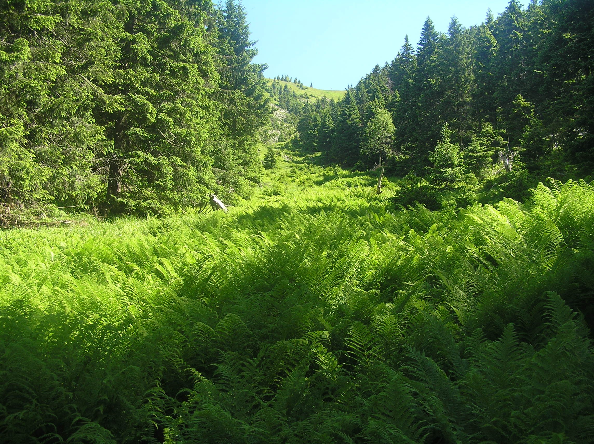 Athyrium distentifolium, Králický Sněžník, Czech Republic